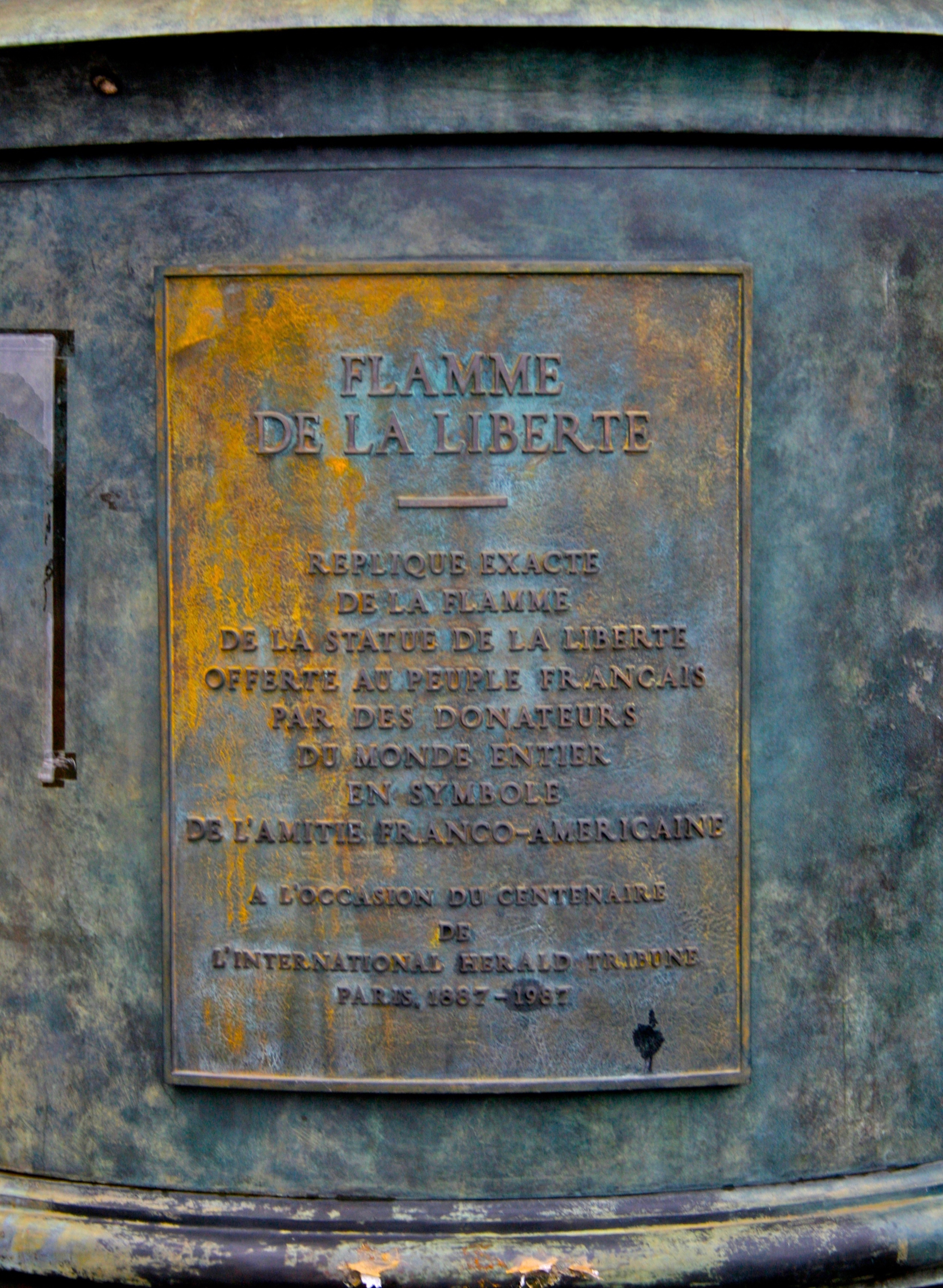 Flamme de la Liberté, Paris.